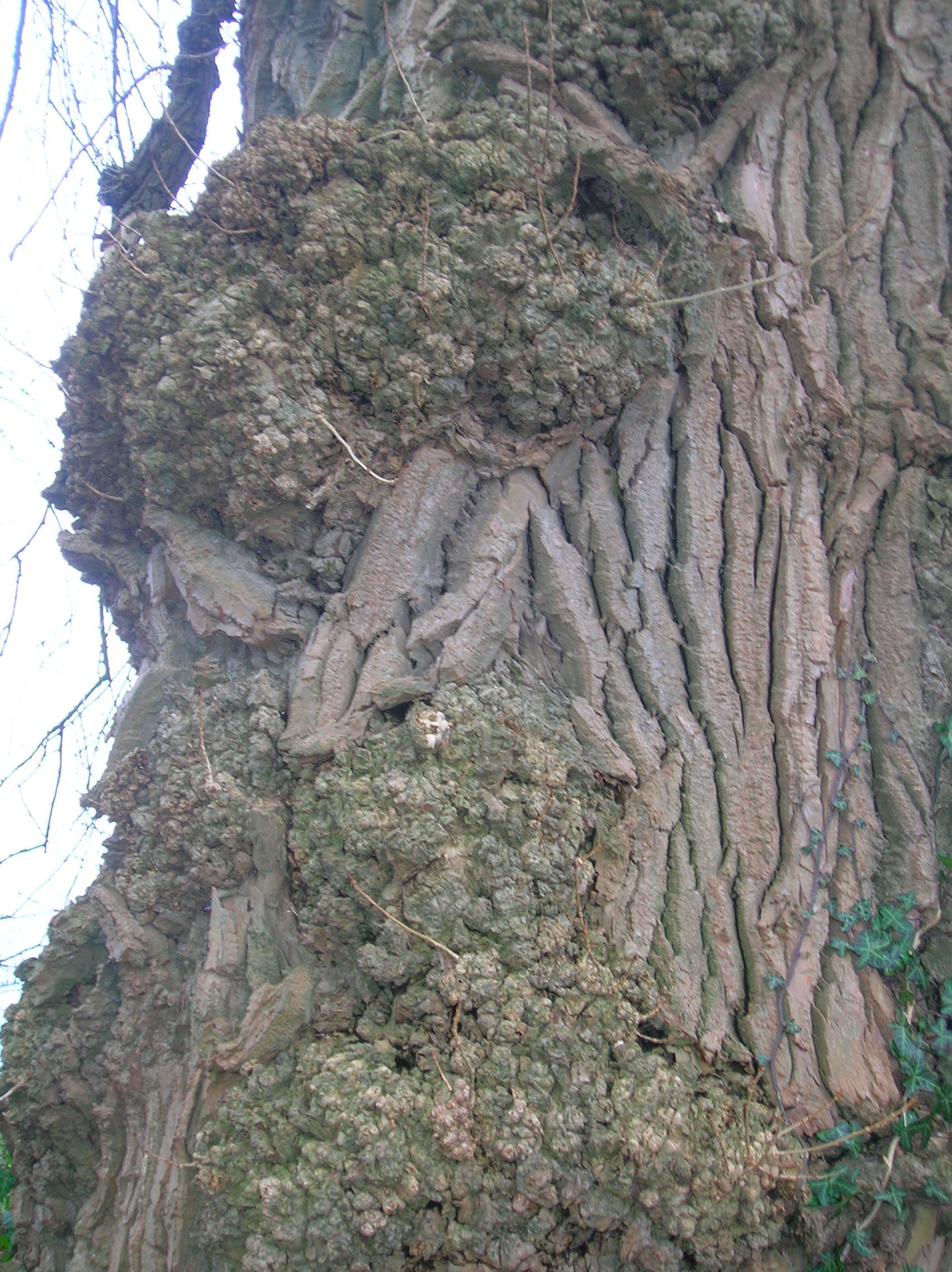 A Burr on a Black Poplar in Ayrshire, Scotland.